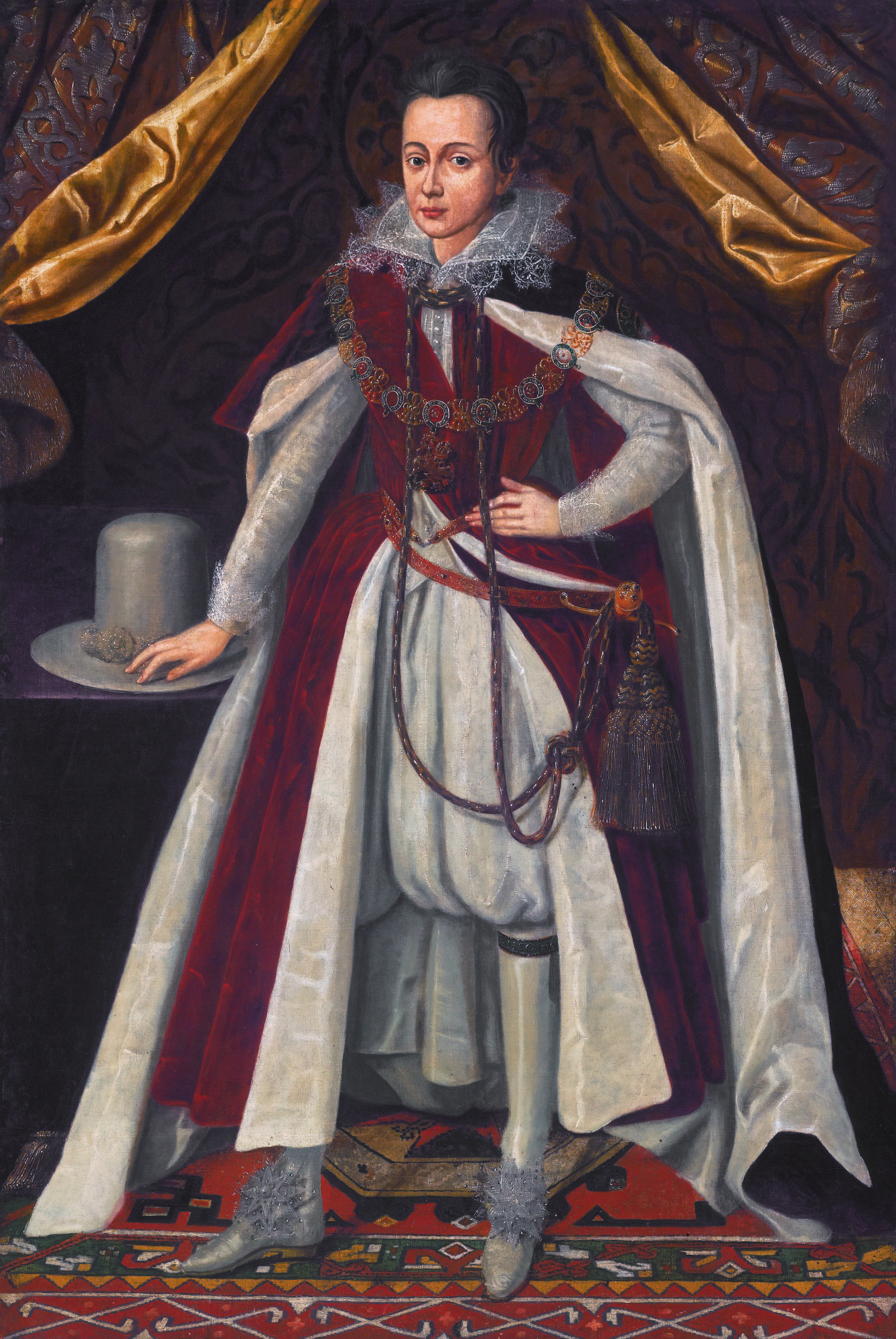 Charles, Duke of York, later King Charles I oil on canvas 147 x 99 cm